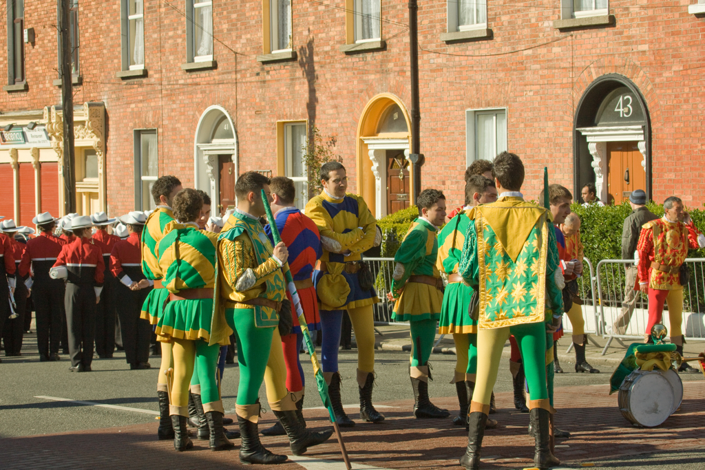 Saint Patrick's Day in Dublin, 2008